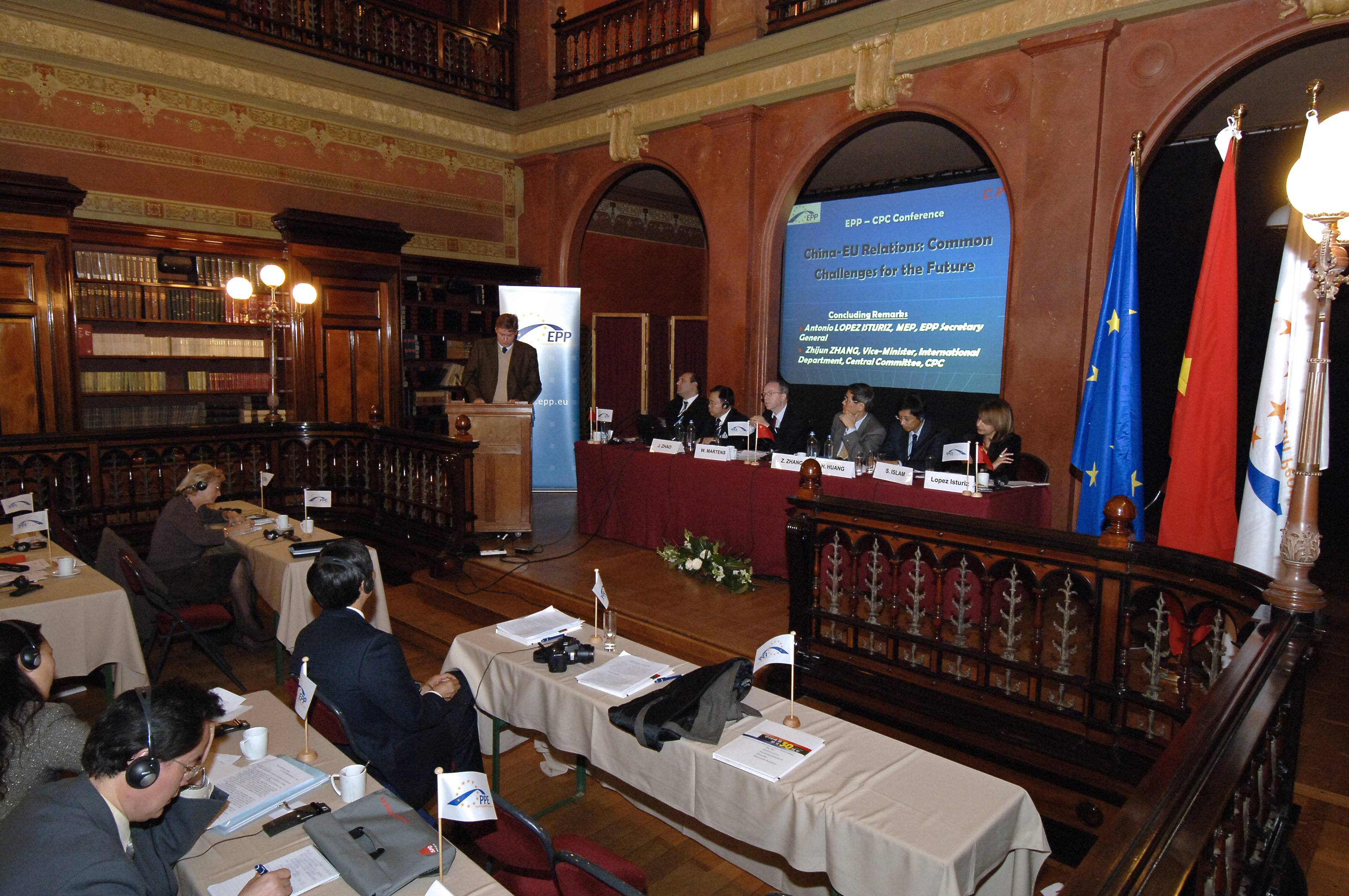 EPP AND CPC DEBATE EU-CHINA RELATIONS 7 November 2007